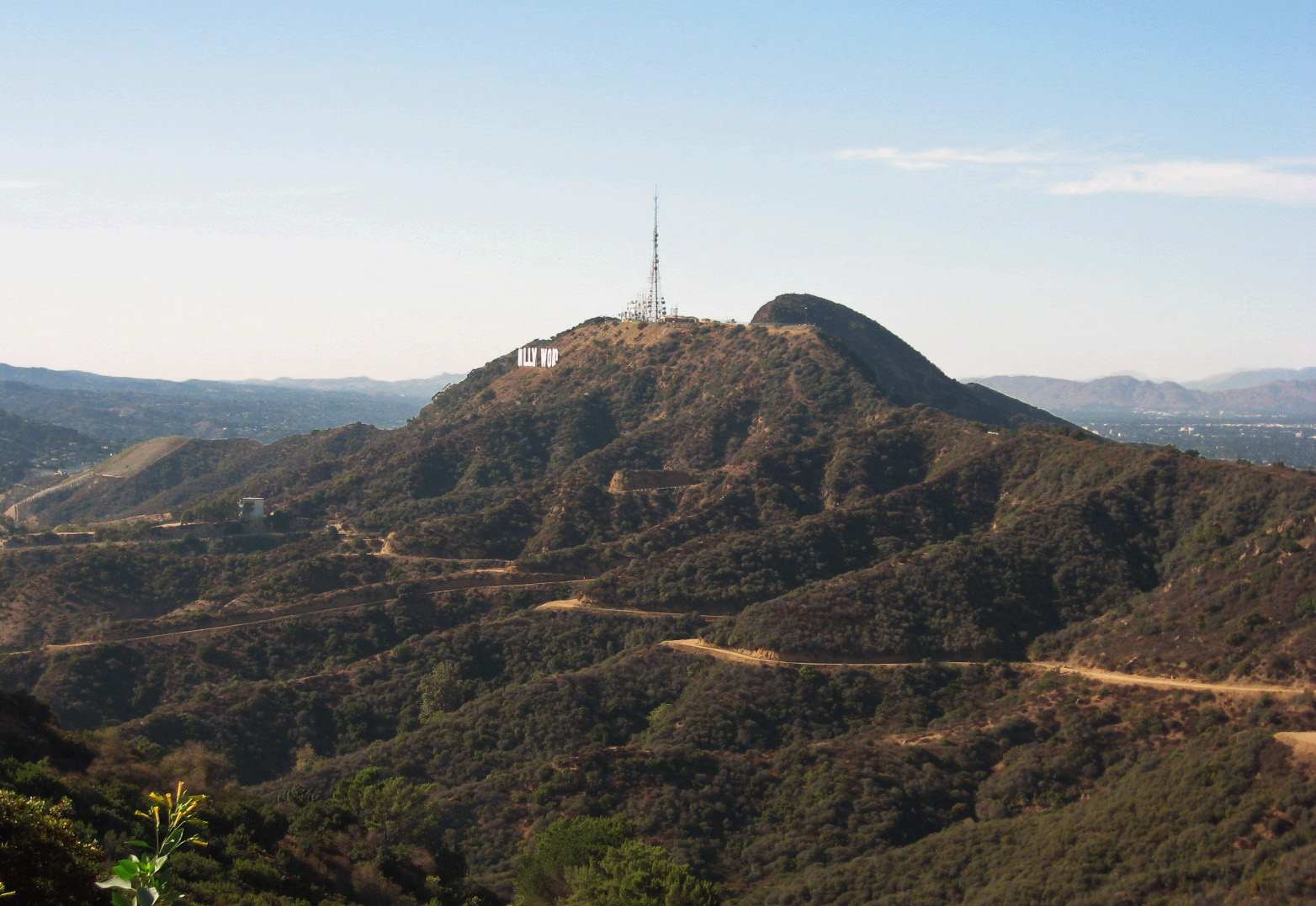 The Hollywood sign on Mount Lee in Griffith Park. Cahuenga Peak is behind Mount Lee. This photo shows the narrowness of the ridge between the Los Angeles basin on the left, and the San Fernando Valley on the right.